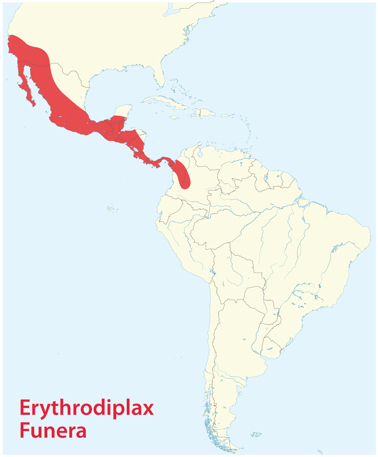 Distribution map of Erythrodiplax Funera